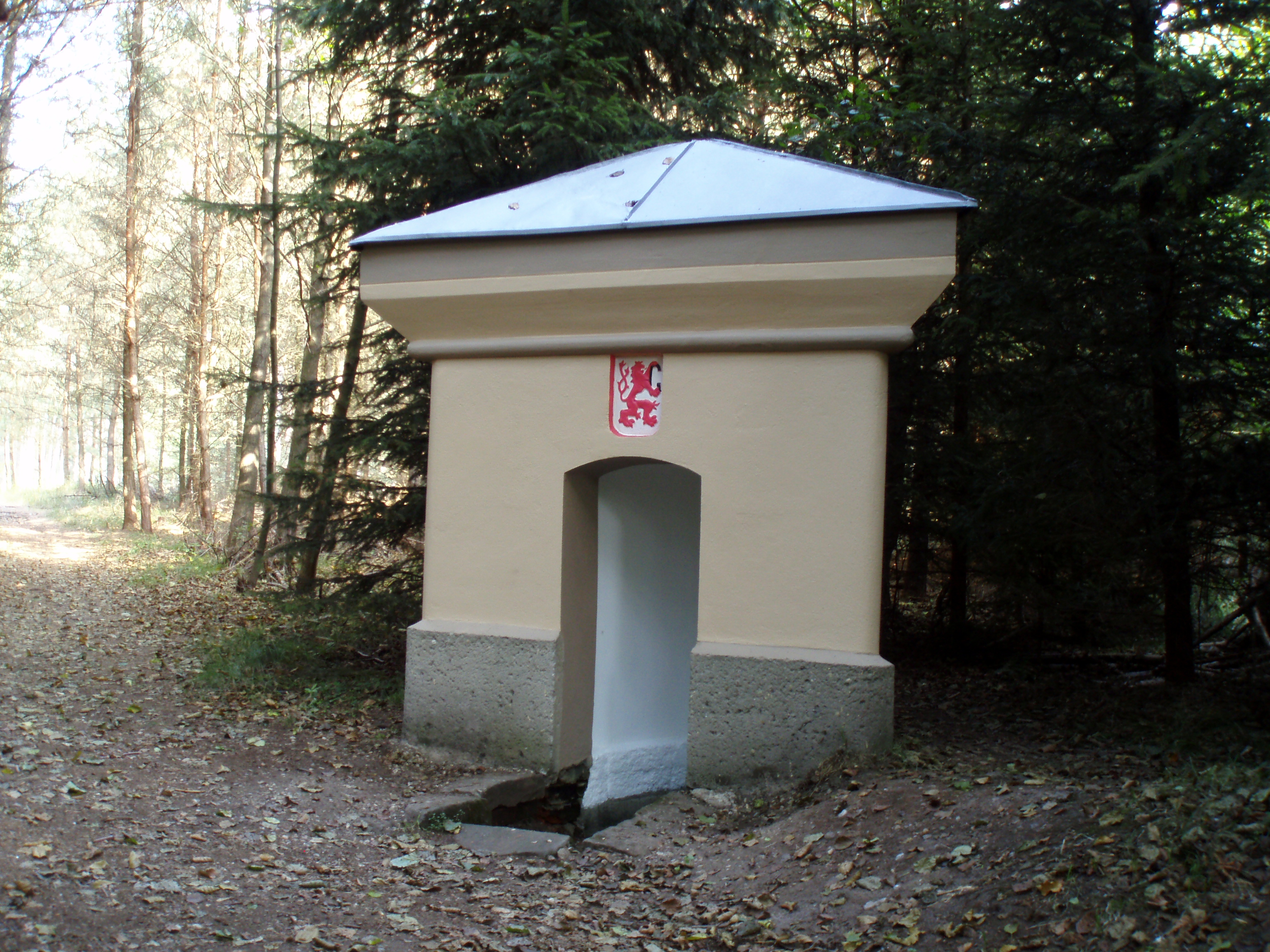 Chapel near Imperial Wells in Hradec Králové (Czechia)